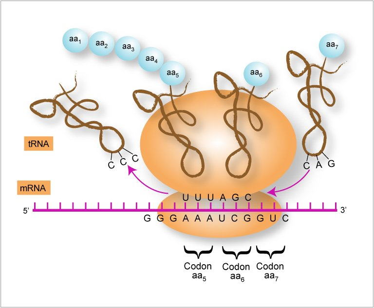 Illustration of Translation: A ribosome, a mRNA and lots of tRNAs (each bound to an amino acid), interact to produce a peptide (or a protein) molecule.) Note: Transcription is not depicted here.